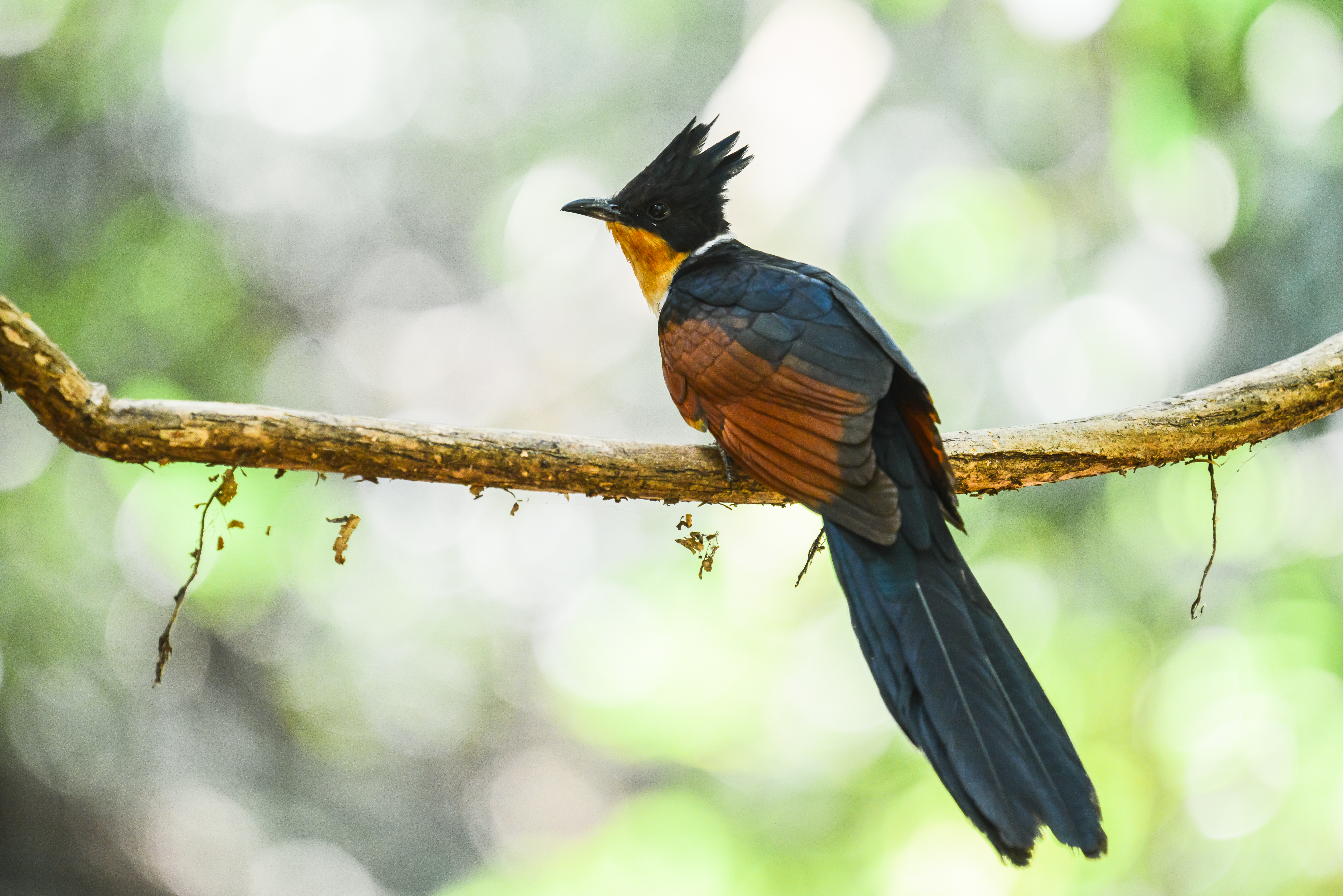 This photo is published under Creative Commons Attribution-Share-Alike Licence, means you are free to use this photo with attribution under same licence. For credits, please use following; Owner: Thai National Parks Link